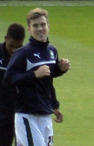 Plymouth Argyle players in 2014